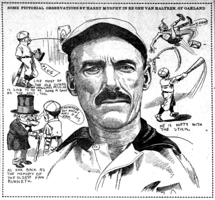 A drawing of Oakland Oaks manager George Van Haltren which was featured in the May 2, 1909 edition of The Sunday Oregonian.